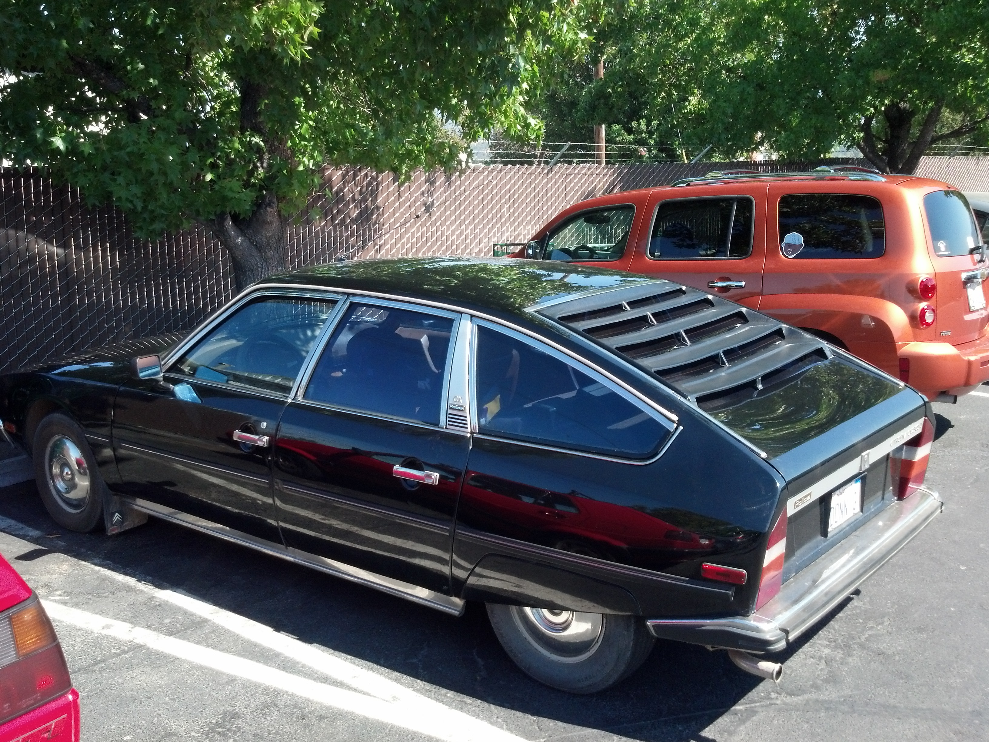 Citroën CX Pallas 2500D in Northern California, 09/2013.